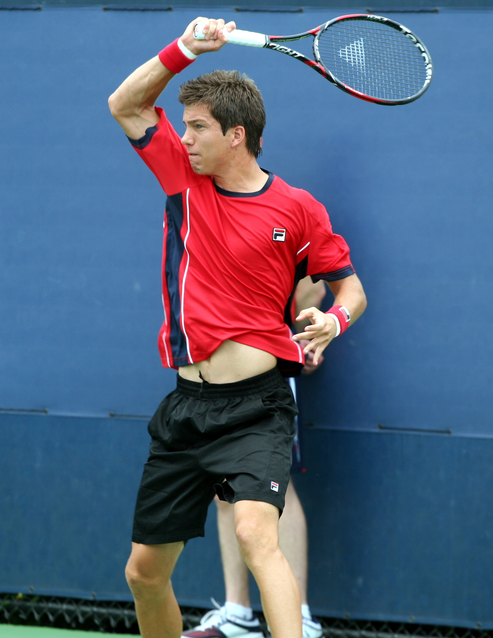 Monday, August 26